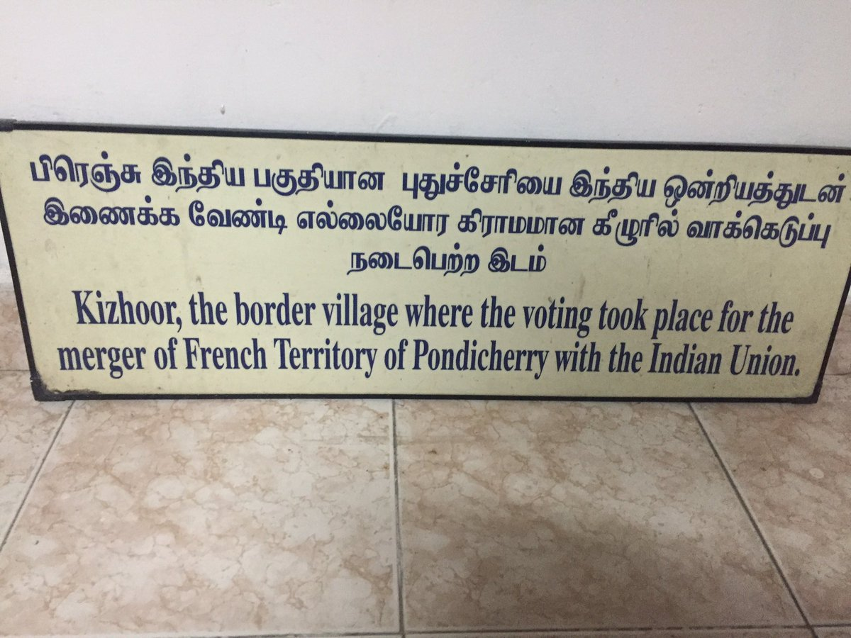 Kizhur